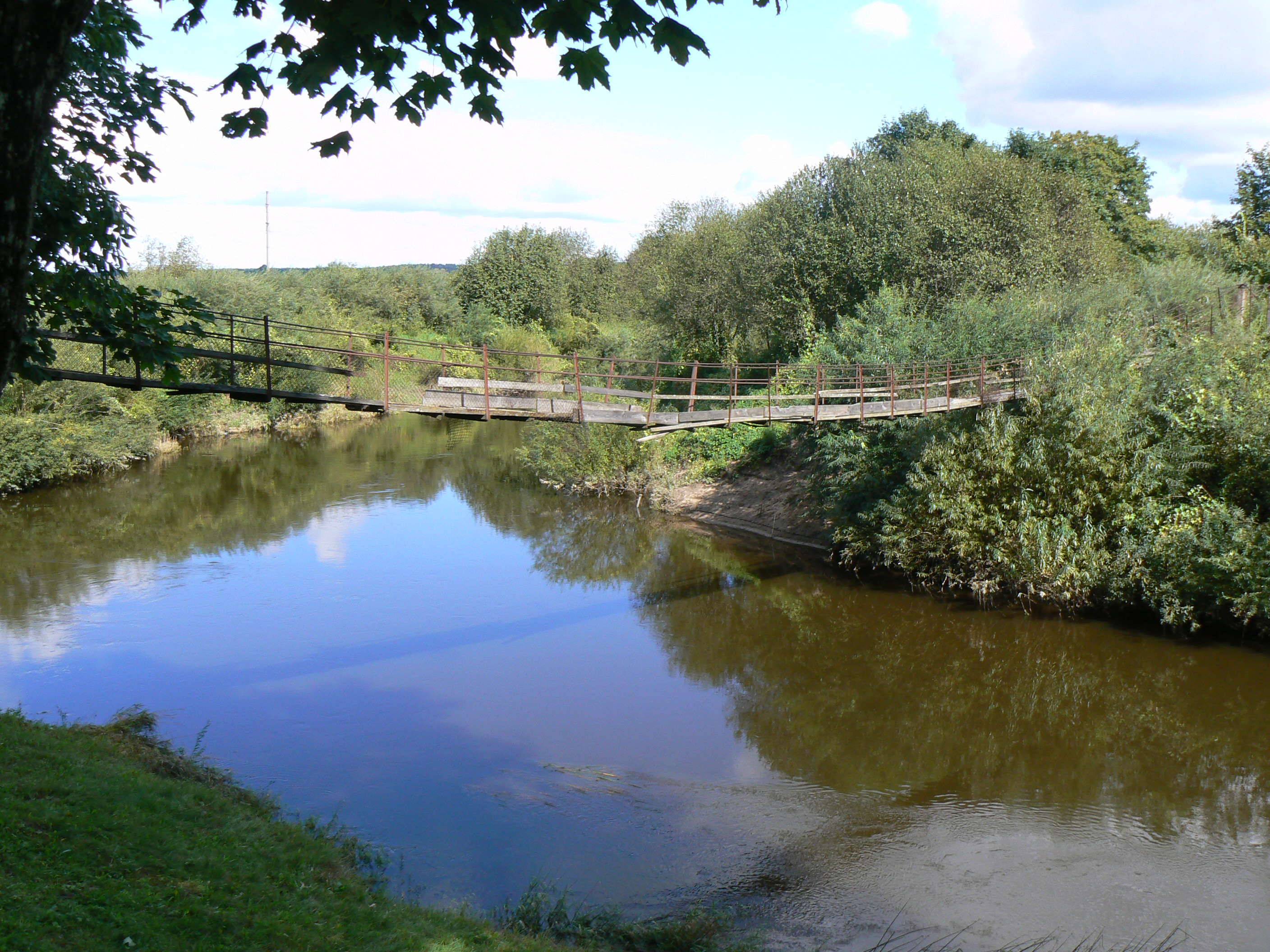 "Monkeys" bridge in Dituva River:Minija